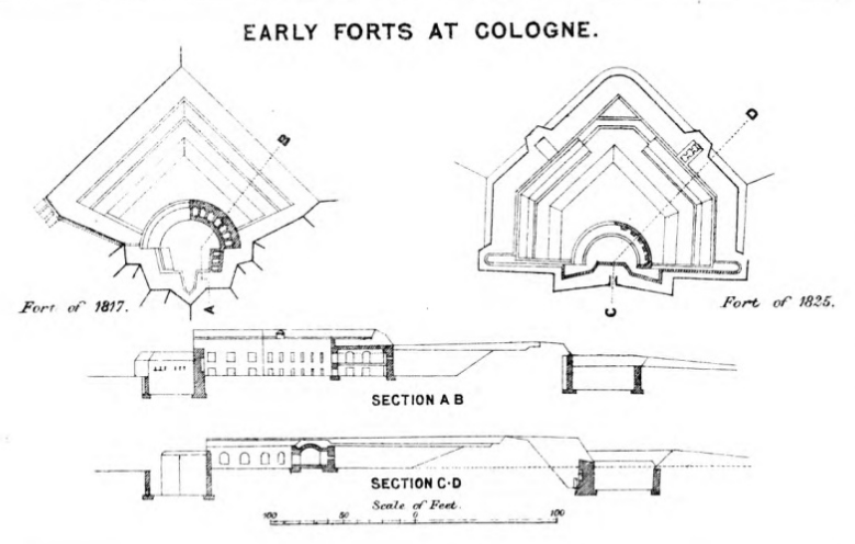 Plan and elevation of two early types of polygonal fort at Cologne, built in 1817 and 1824 in the Prussian System of military engineering. From a British textbook published in 1892.